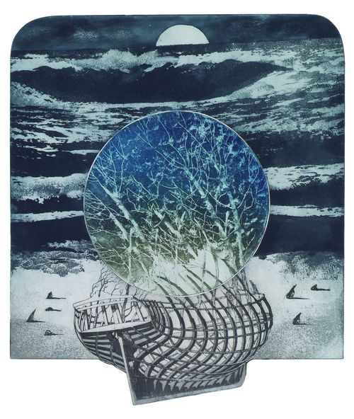 Miroslaw Piotrowski, wreck, 1986, etching, aquatint